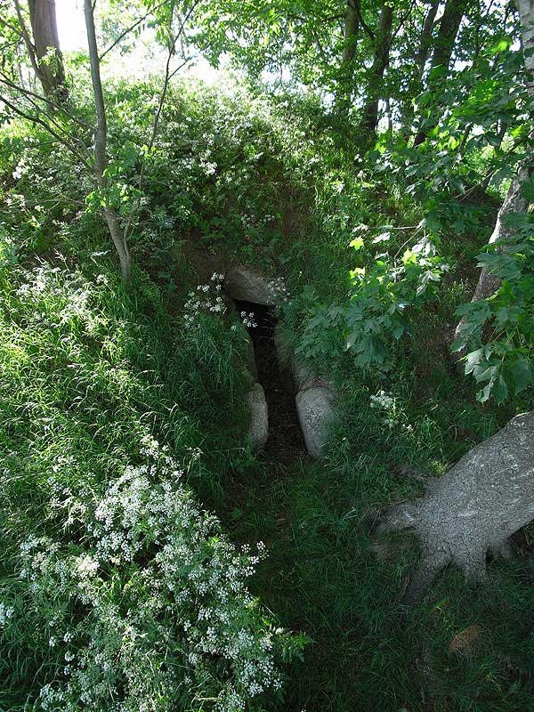 Site Name: Åstrup Deelhøj Jættestue Alternative Name: Dilhøj Country: Denmark County: Vejle Type: Passage Grave Nearest Town: Horsens Nearest Village: Åstrup Latitude: 55.773240N Longitude: 9.962493E